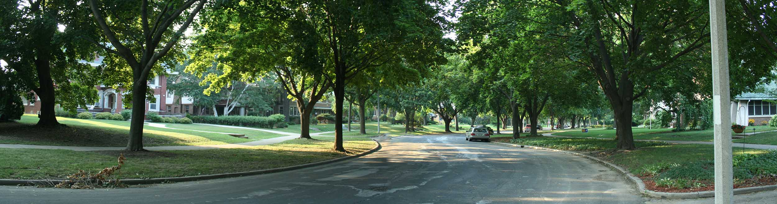 West Washington–North Hi-Mount Boulevards Historic District, Registered Historic Place, Milwaukee, Wisconsin. This picture is stitched from three photos, with very visible stitch lines in the middle.